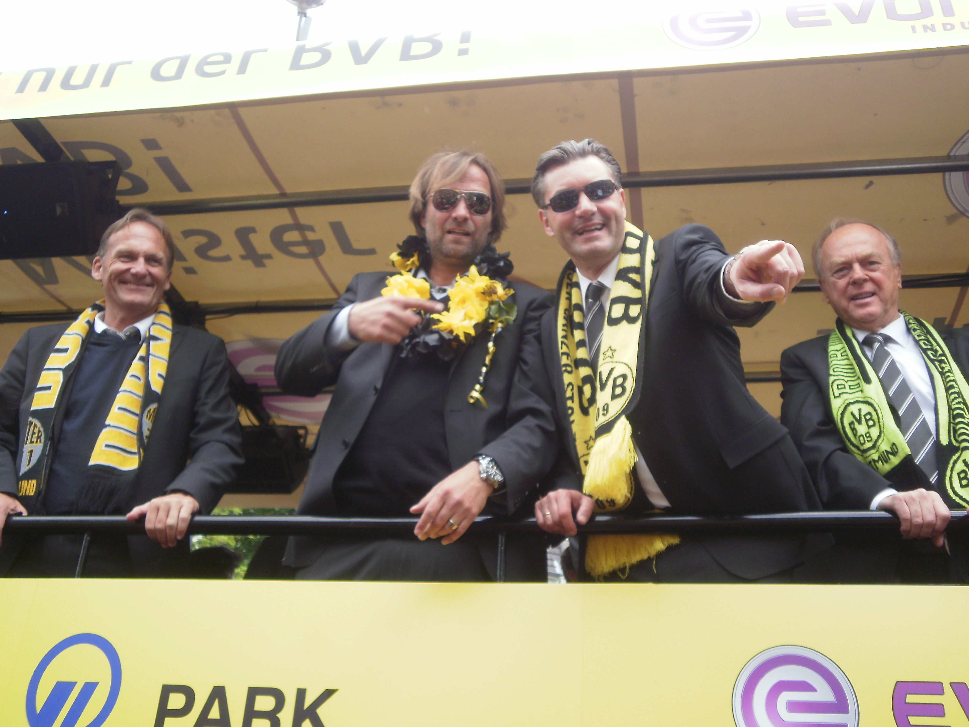 Some of the Borussia Dortmund management celebrate winning the Bundesliga and DFB-Pokal in 2011.